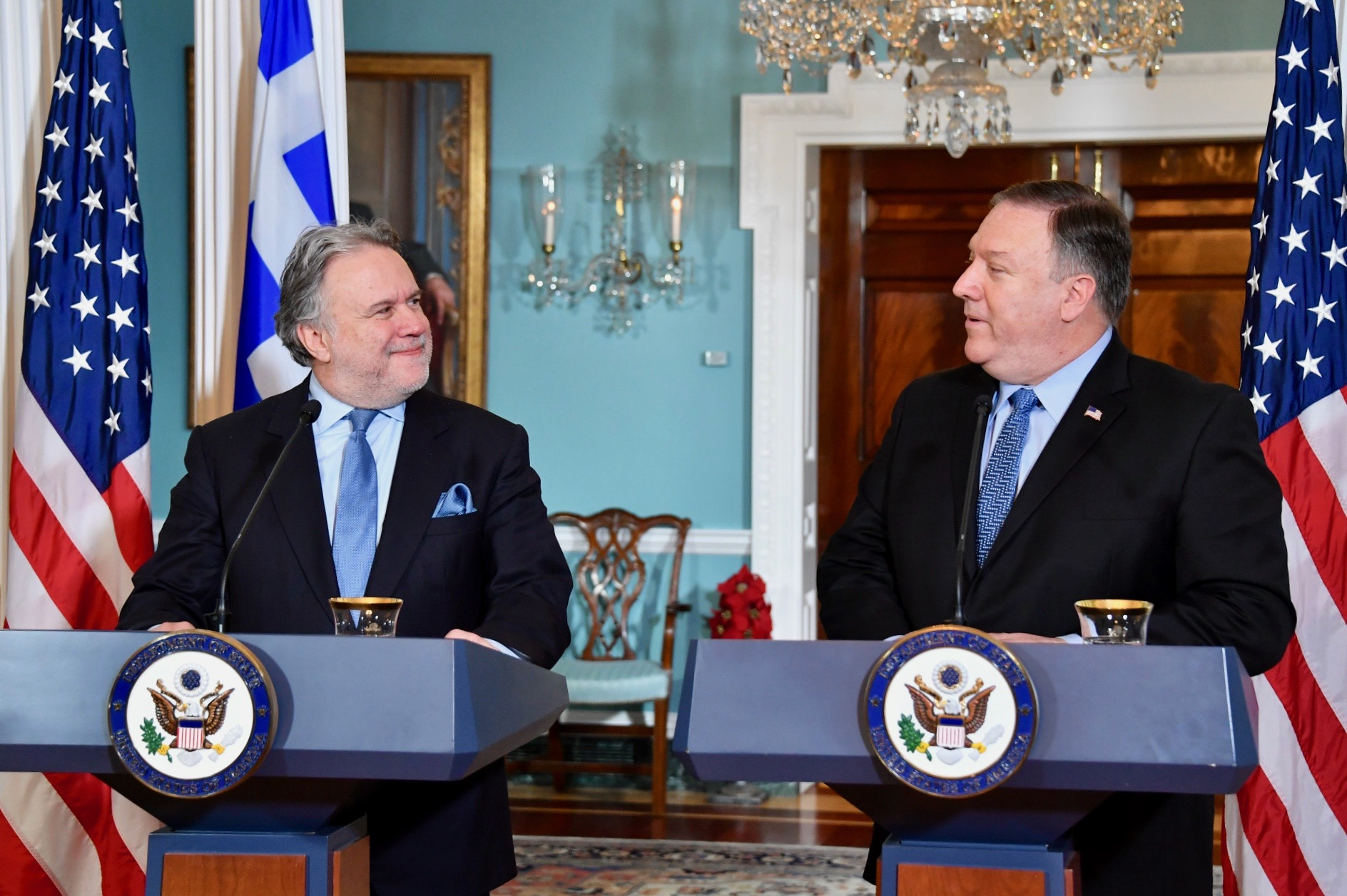 Secretary of State Michael R. Pompeo and Greek Acting Minister of Foreign Affairs George Katrougalos address reporters following the U.S.-Greece Strategic Dialogue at the U.S. Department of State in Washington, D.C., on December 13, 2018. [State Department photo/ Public Domain]